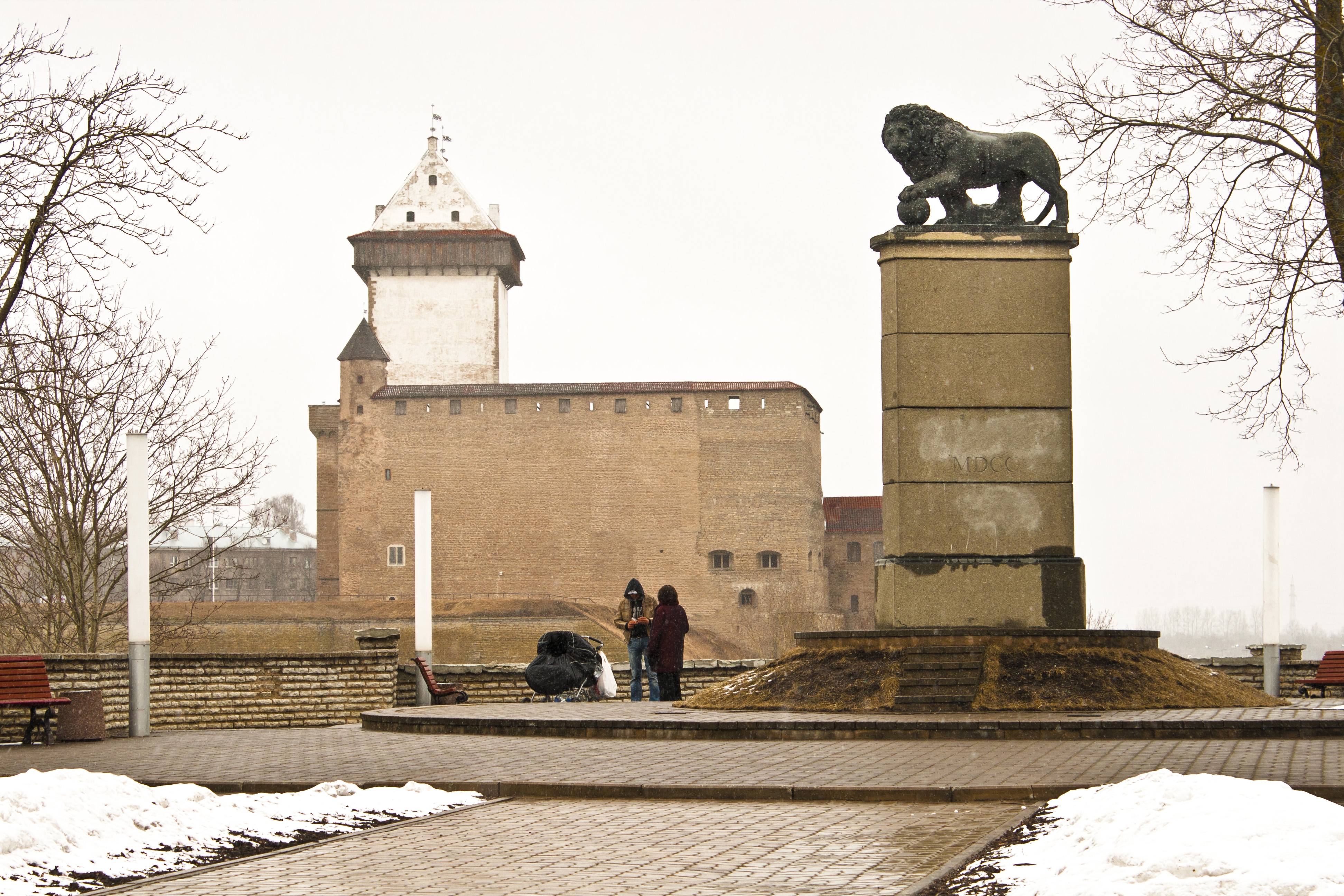 The Swedish Victoria monument in Narva